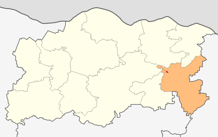 Map of Levski municipality, Pleven Province